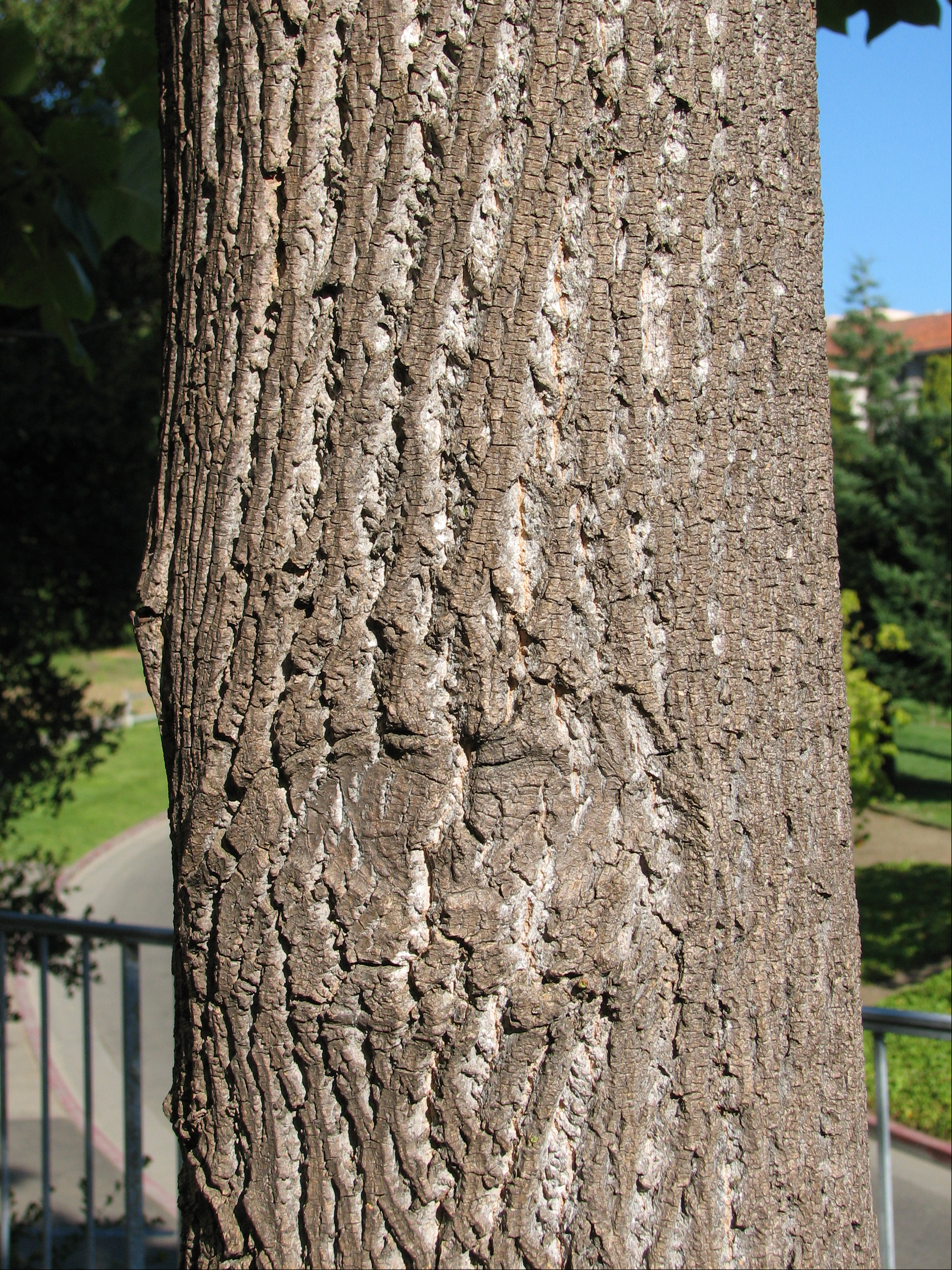 Liriodendron tulipifera bark from mature tree photographed at the University of California, Berkeley